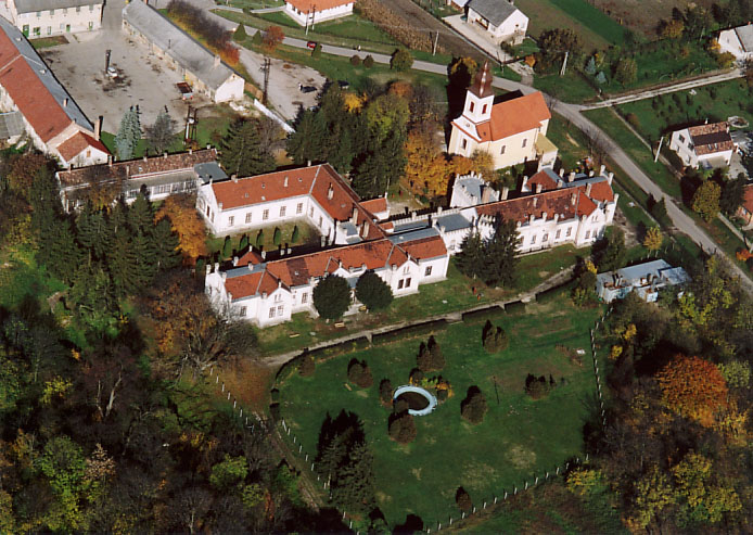 Palace - Tordas - Hungary - Europe (Sajnovics Mansion)